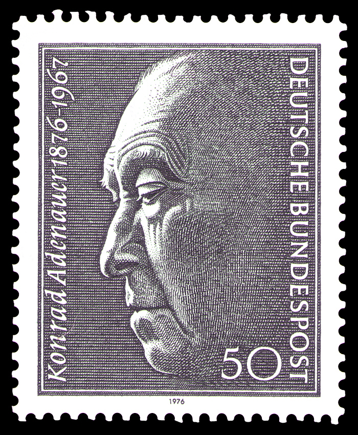 stamp for 100 years of birth, Konrad Adenauer (1876-1967) Ausgabepreis: 50 Pfennig First Day of Issue / Erstausgabetag: 5. Januar 1976 Michel-Katalog-Nr: 876 Designer: Walter